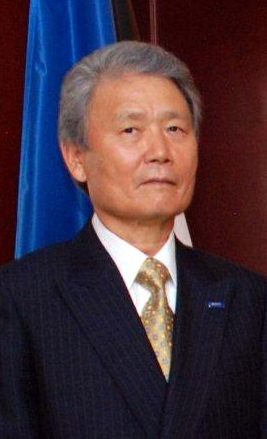 Toivo Tasa, Ambassador to Japan, conducted an investiture ceremony for Sadayuki Sakakibara, Chairman of the Toray Industries, Inc., at the Embassy of Estonia in Tokyo on June 25, 2012. Sakakibara was given the 3rd Class of the Order of the Cross of Terra Mariana from Tasa.